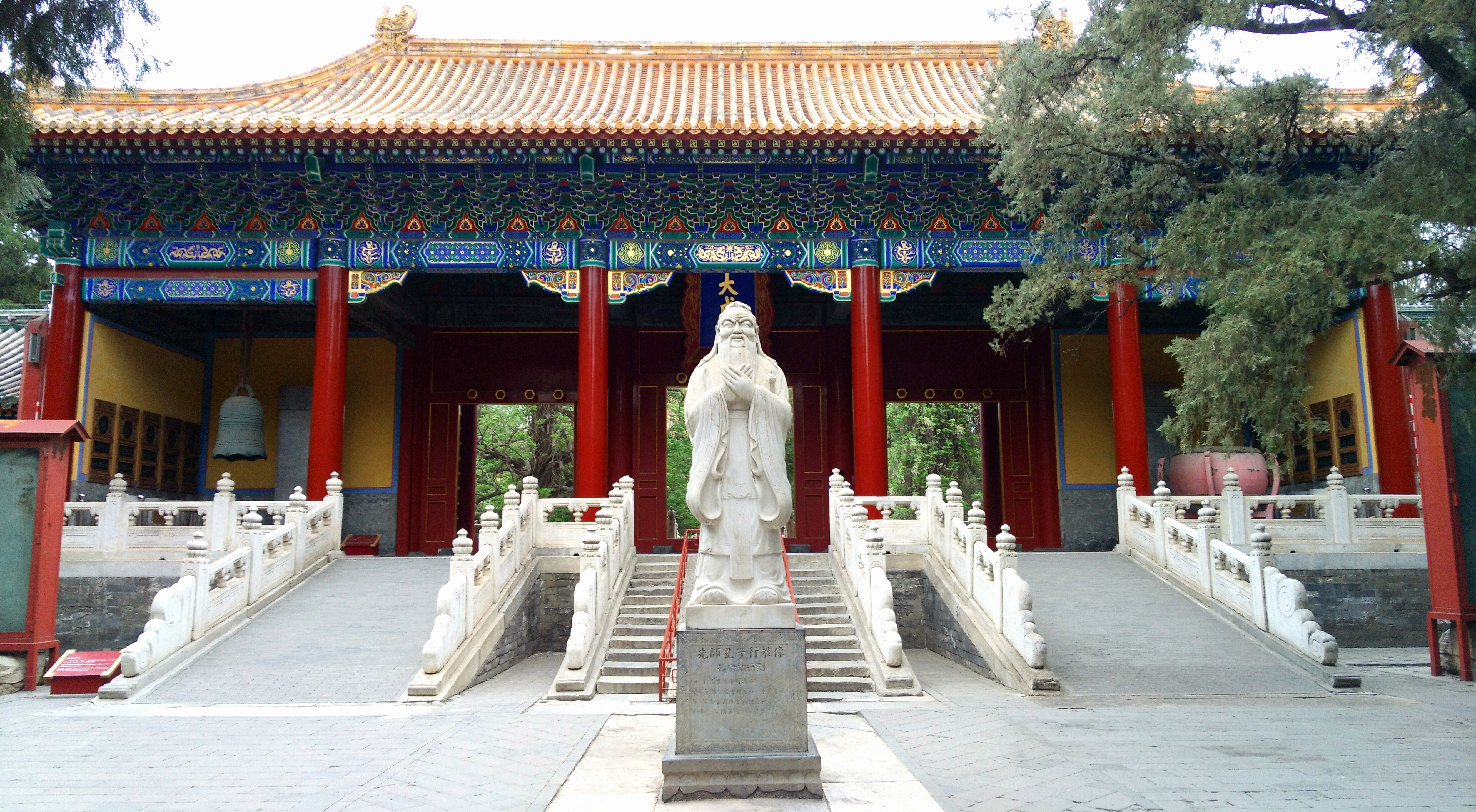 The gateway to Confucius Temple, Beijing, China